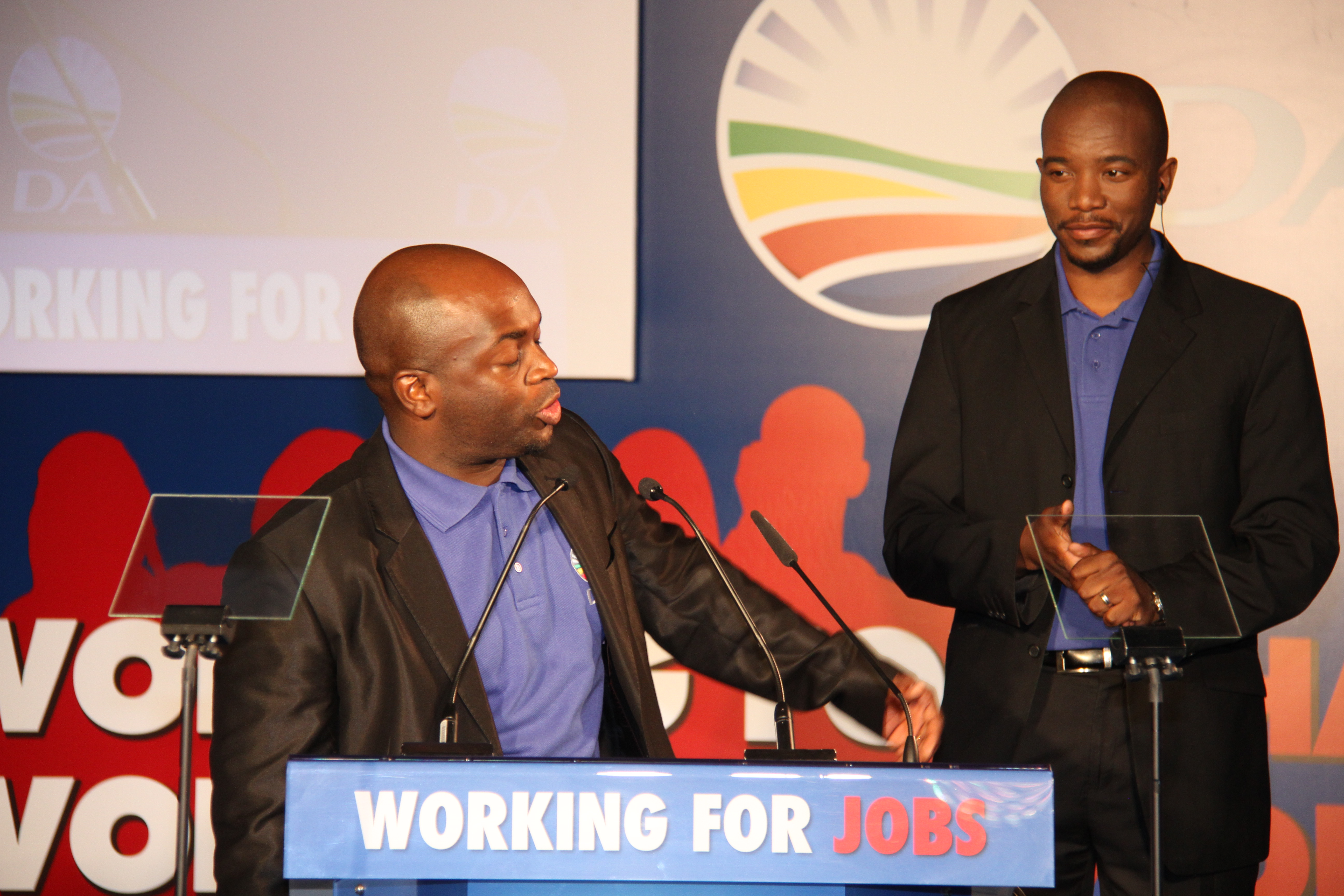 Solly Msimanga delivering a speech, while Mmusi Maimane watches in the background.